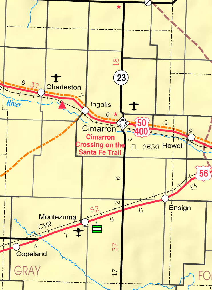 This map of Gray County, Kansas, USA, is copied at a resolution of 300 pixels/inch from the original PDF file.